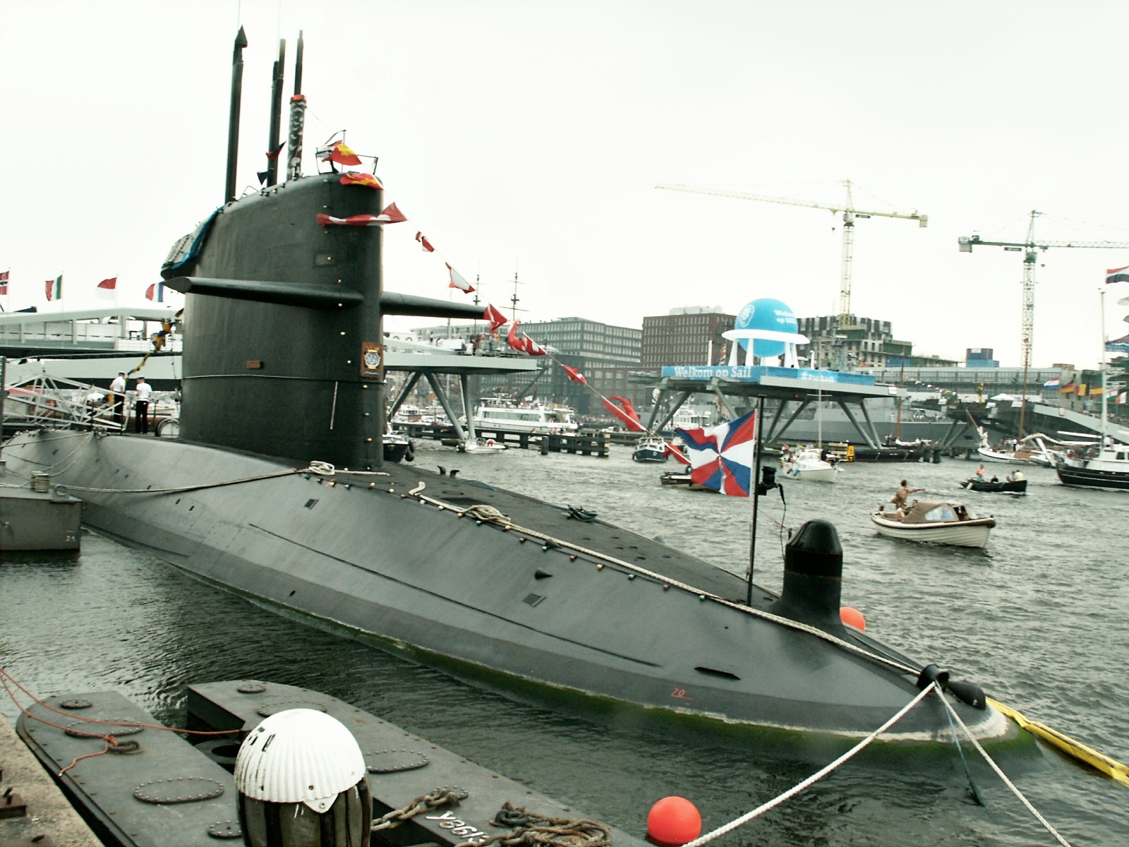 The Zeeleeuw, a Dutch submarine of the Walrus class. The Zeeleeuw is seen from the front, decorated due to the SAIL Amsterdam event. The remarkable "X" configuration of the stern diving planes and rudders is not seen in this photo.